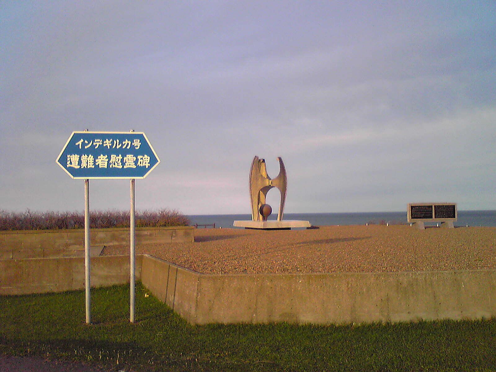 Indigirka Issue Distress Memorial, Hokkaido, Japan.